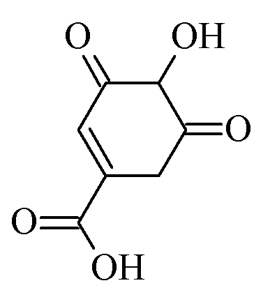 chemical structure of 3,5-didehydroshikimate